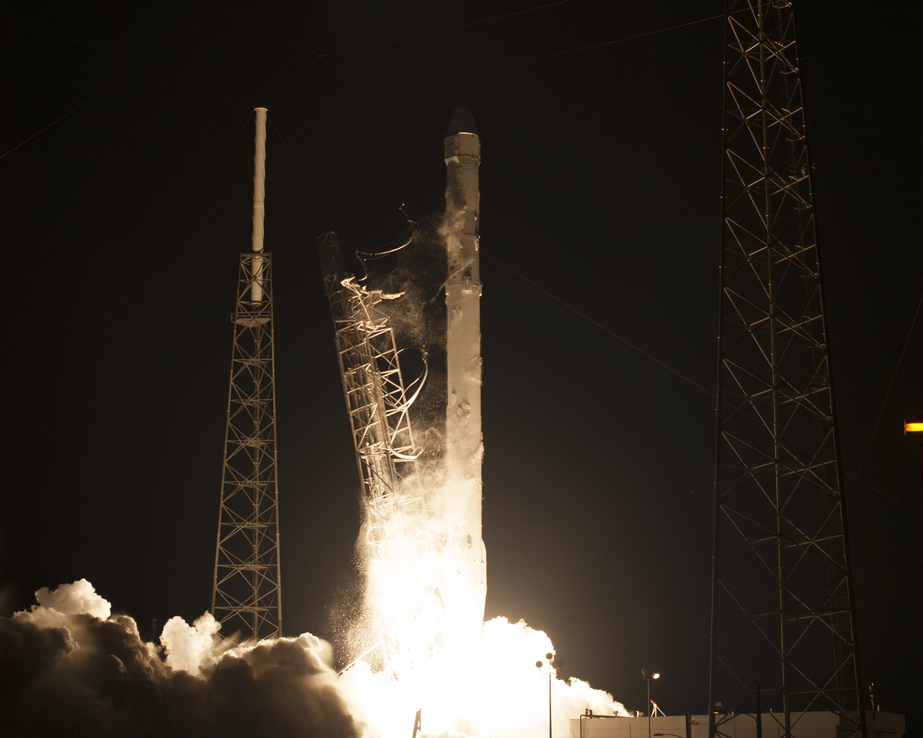 SpaceX rocket lifts off from Space Launch Complex 40 at Cape Canaveral Air Force Station carrying the Dragon resupply spacecraft to the International Space Station. Liftoff was at 4:47 a.m. EST. The commercial resupply mission will deliver 3,700 pounds of scientific experiments, technology demonstrations and supplies, including critical materials to support 256 science and research investigations that will take place on the space station.